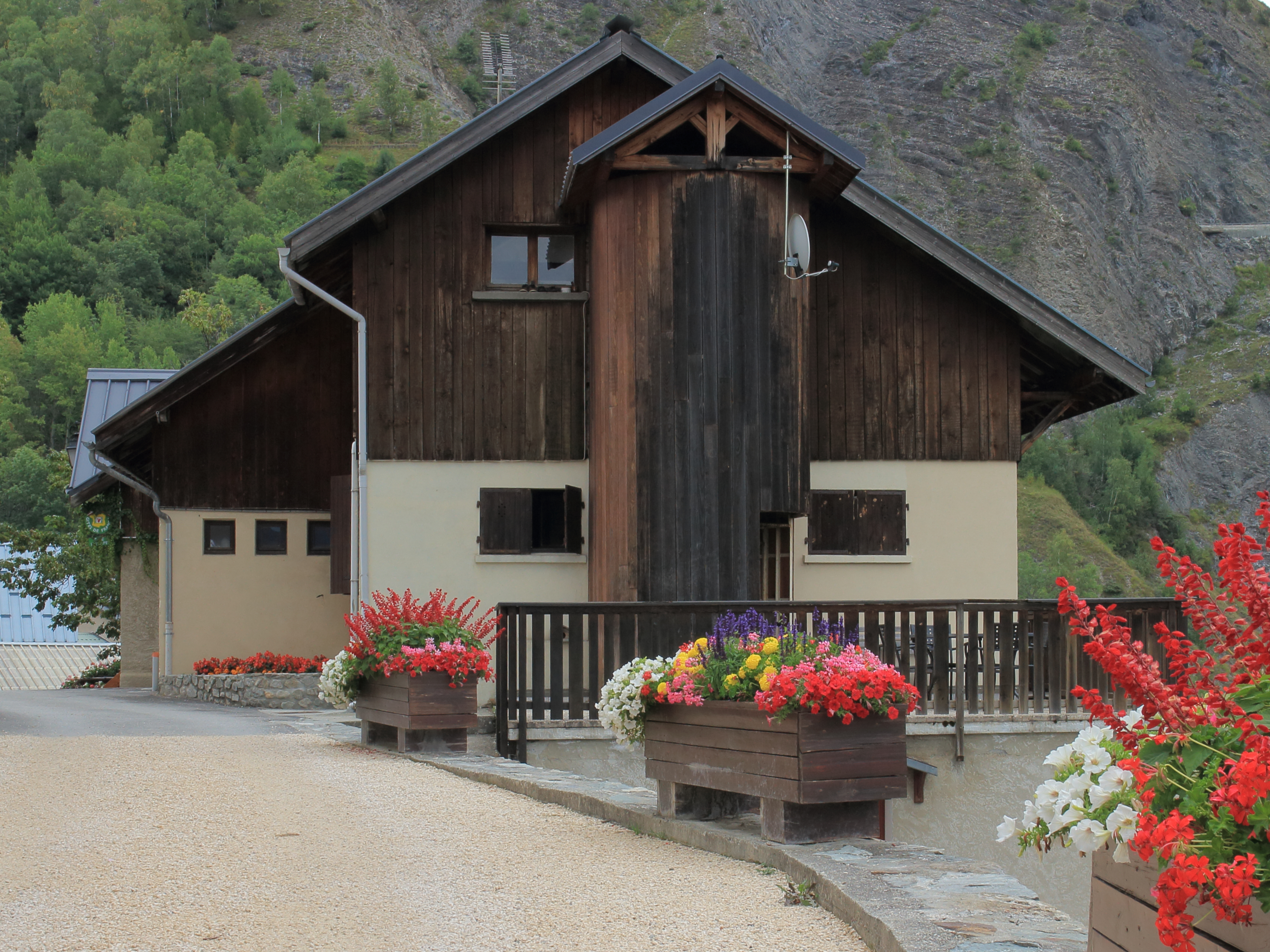 Mizoën, France(1080 m.) gite d'étape l'Emparis